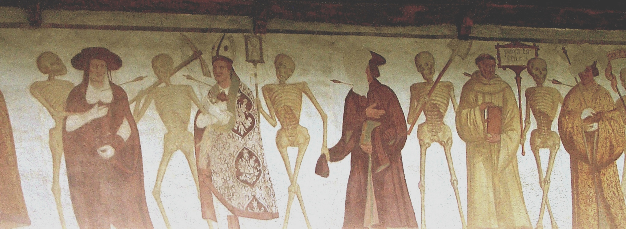 Simone II Baschenis, Danse Macabre (detail), 1539, frescoes on the outside decoration of San Vigilio church, Pinzolo, province of Trento, Italy